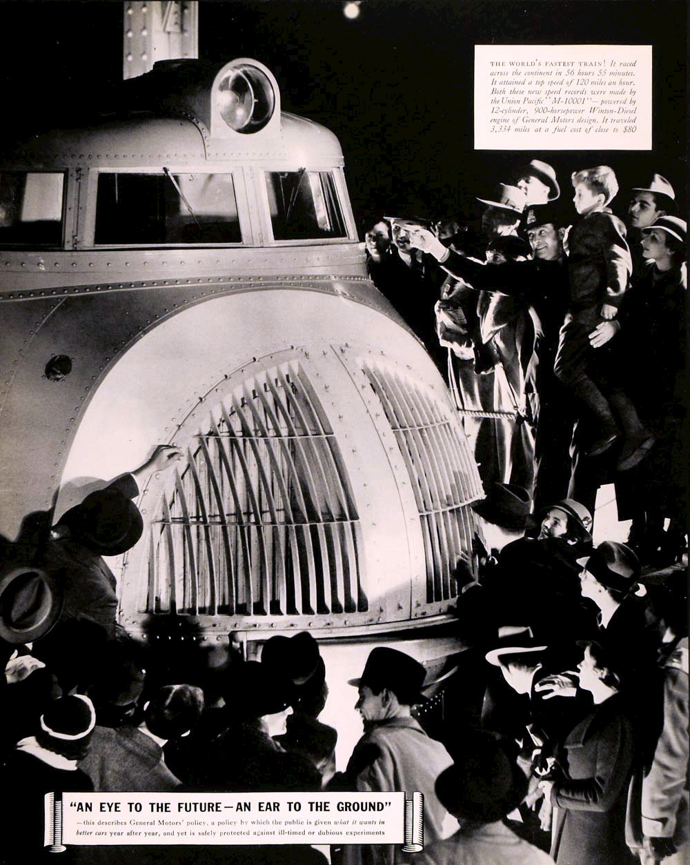 General Motors advertisement for its new line of Winton diesel engines. Union Pacific's M-10001, shown in the ad, was the first train to be equipped with the new version. Seller dates this as 1935; the train was delivered to the railroad in late 1934, when it set the record from Los Angeles to New York. However, it did not enter regular service until May 1935 as the City of Portland, following some rebuilding at Pullman. With this close-up, the many rivets that held the aluminum train together can be seen, making it much different from the Budd Company's stainless steel, shot-welded Zephyr streamliners for the Burlington.